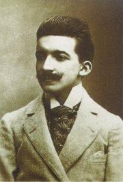 Pierre Louÿs - French writer and poet (1870-1925).